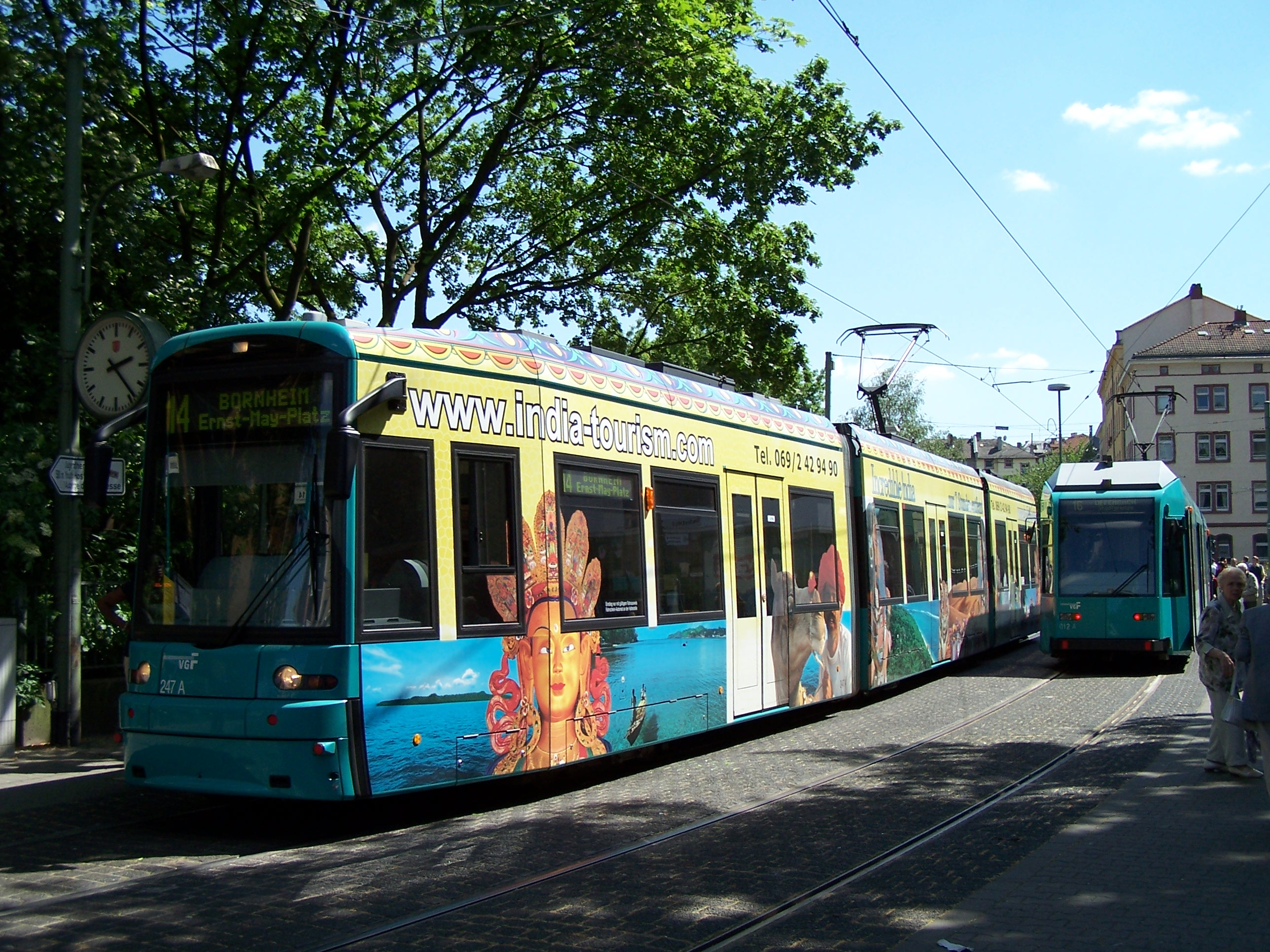 two trams at the stop at Lokalbahnhof in Frankfurt am Main